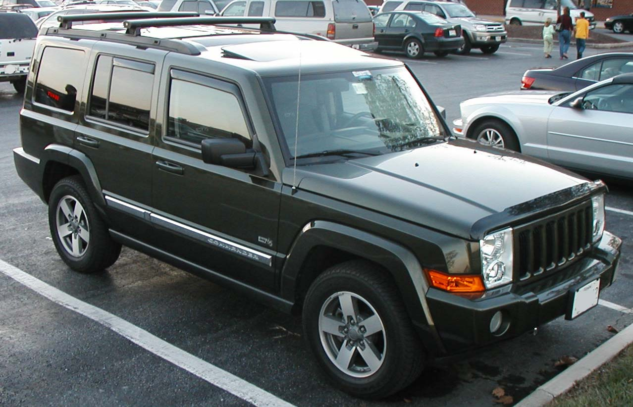 2006-2007 Jeep Commander photographed in USA.